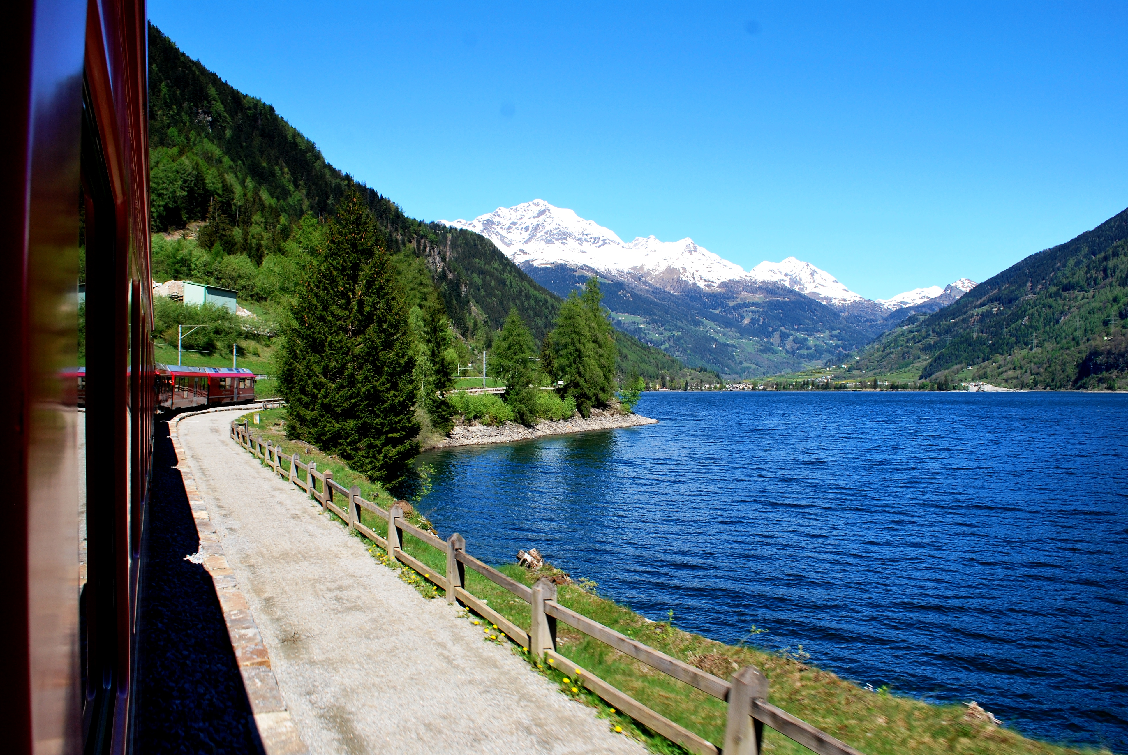 Bernina express train on the way to St Moritz from Tirano, just after Miralago stop. May 2014.